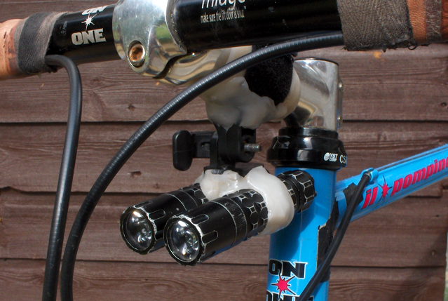 Home-made front bicycle light mounting, made from Polycaprolactone (shapelock).